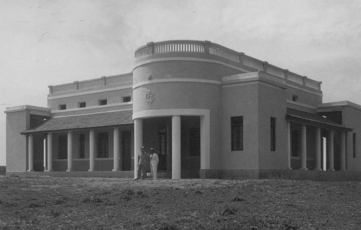 Modernist style post office building — in Diu, India (1949).